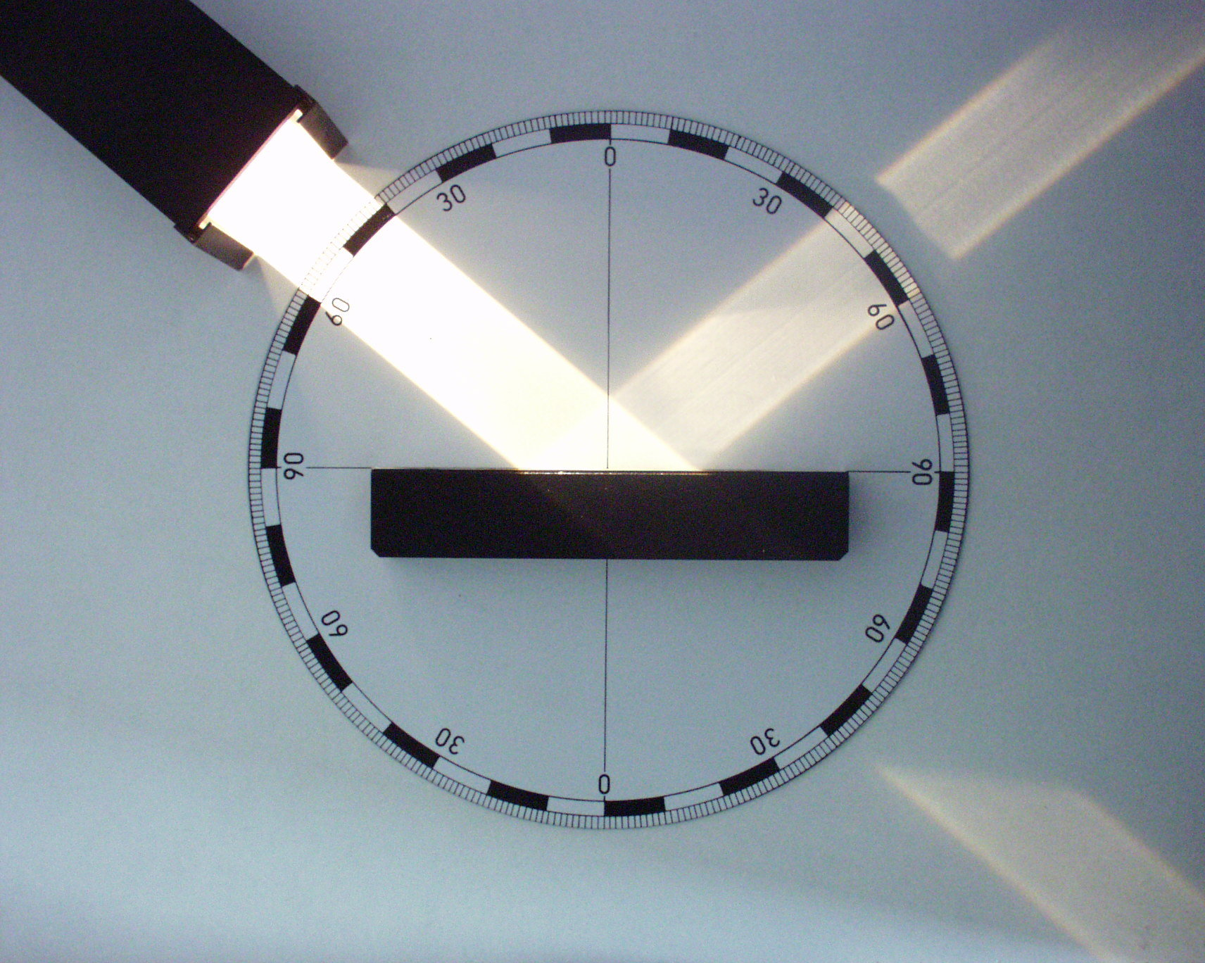 Reflection of a beam of light by a plane mirror.